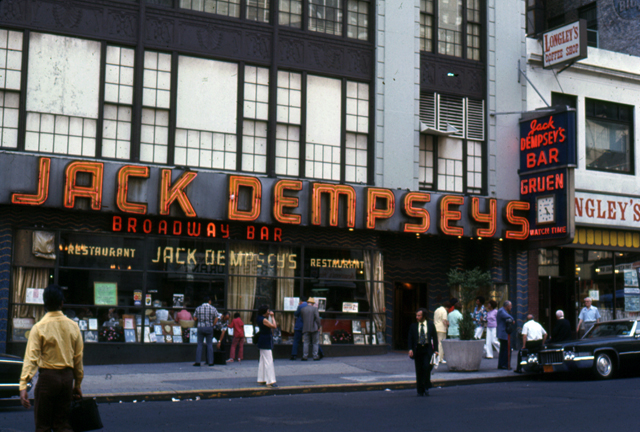 New York City sometime in the early 70s